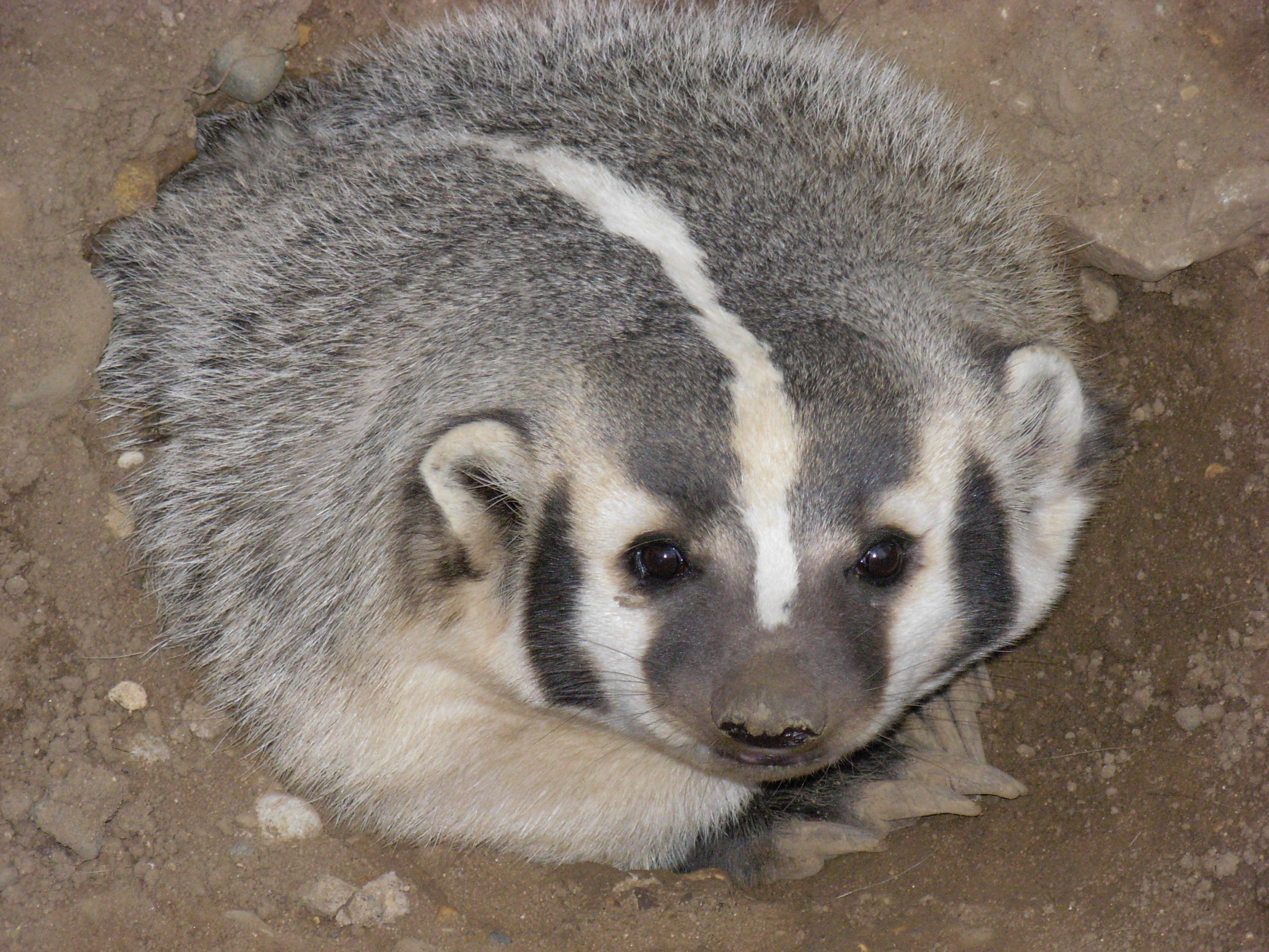 A female American Badger about four years old at the Oxbow Zollman Zoo in Olmsted County, Minnesota